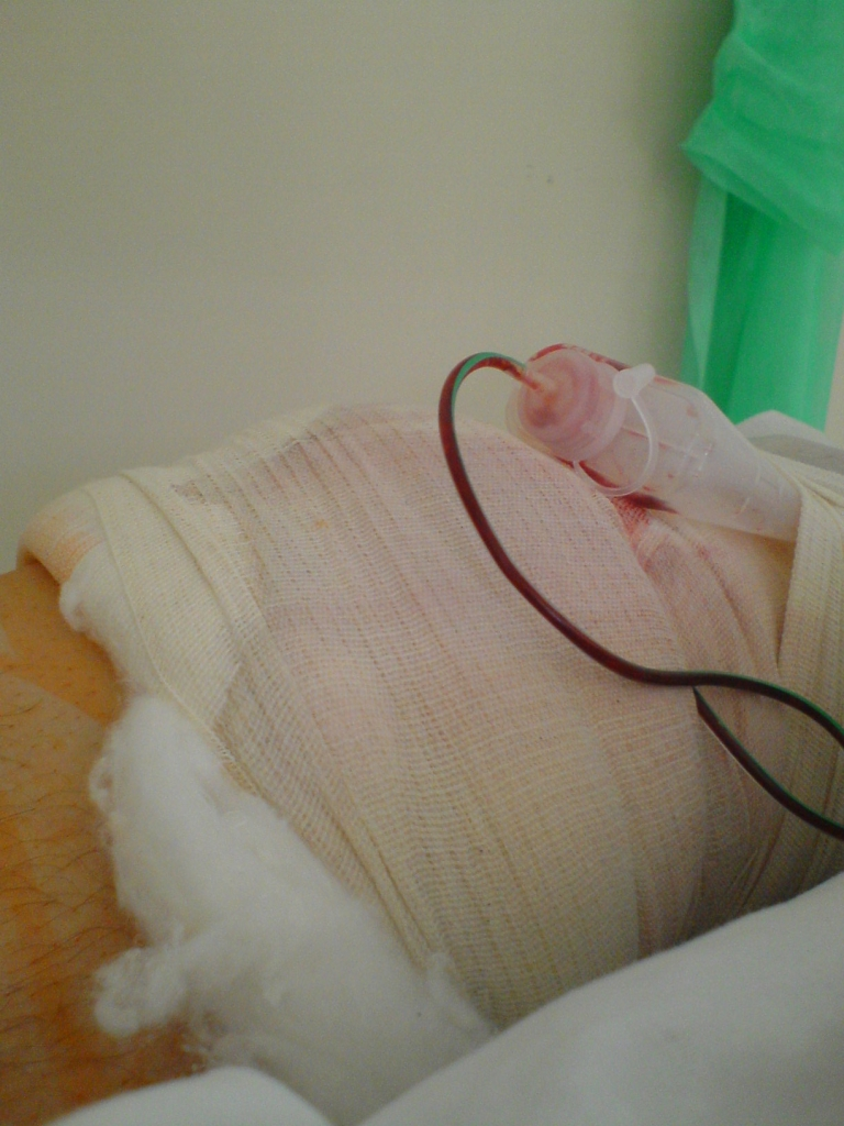 knee drain, same day